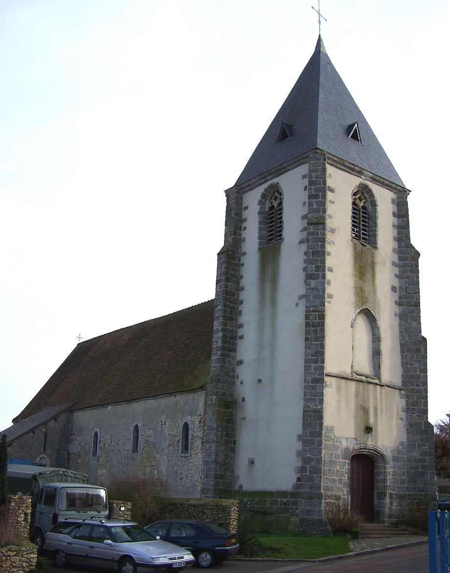 Church of Adainville (Yvelines, France)